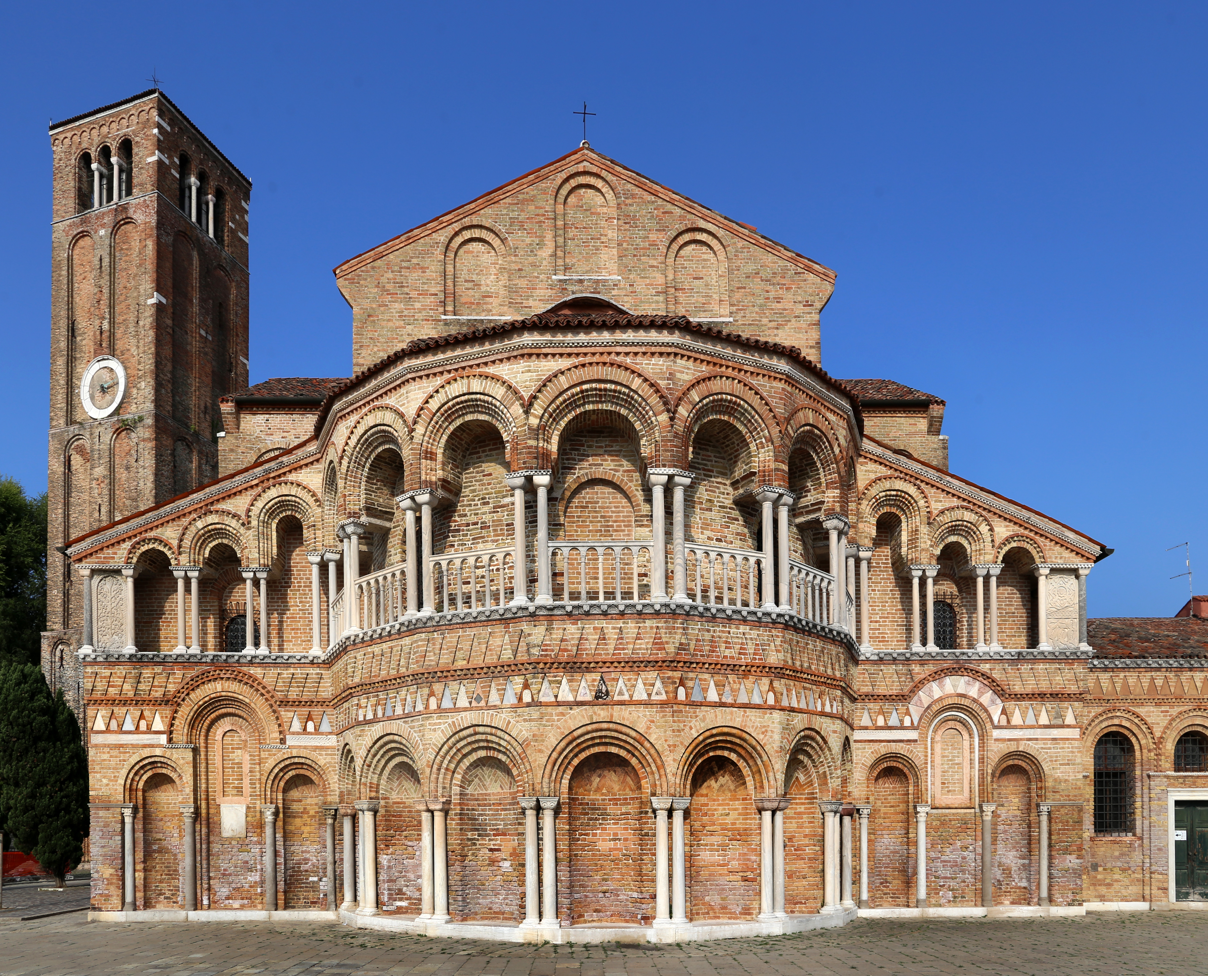 Santa Maria and San Donato (Murano) - Exterior